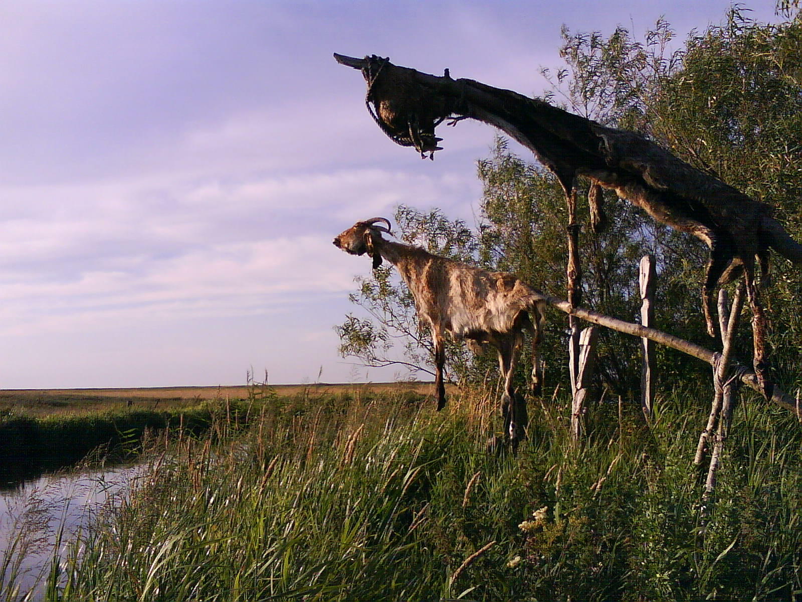 Sacfificed goats at a reconstructed pre-christian vé, Bork vikingehavn, Denmark